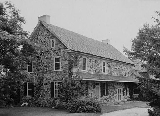 Humphry Marshall House, State Route 162 (Strasburg Road) (West Bradford Township), Marshallton (Chester County, Pennsylvania) (cropped)